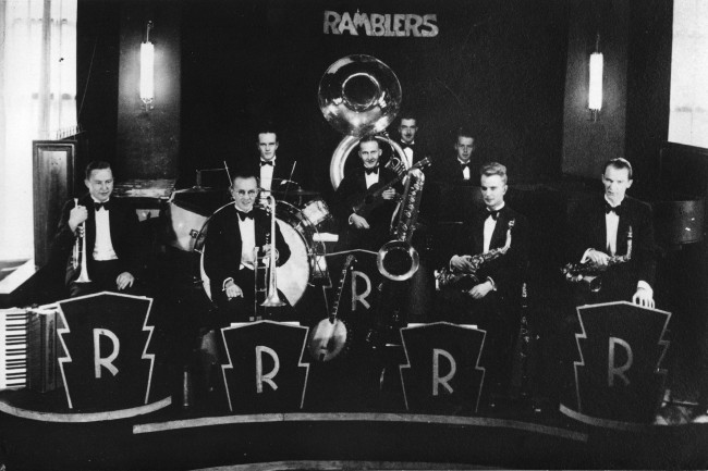 Ramblers-orchestra in Opris-restaurant 1931